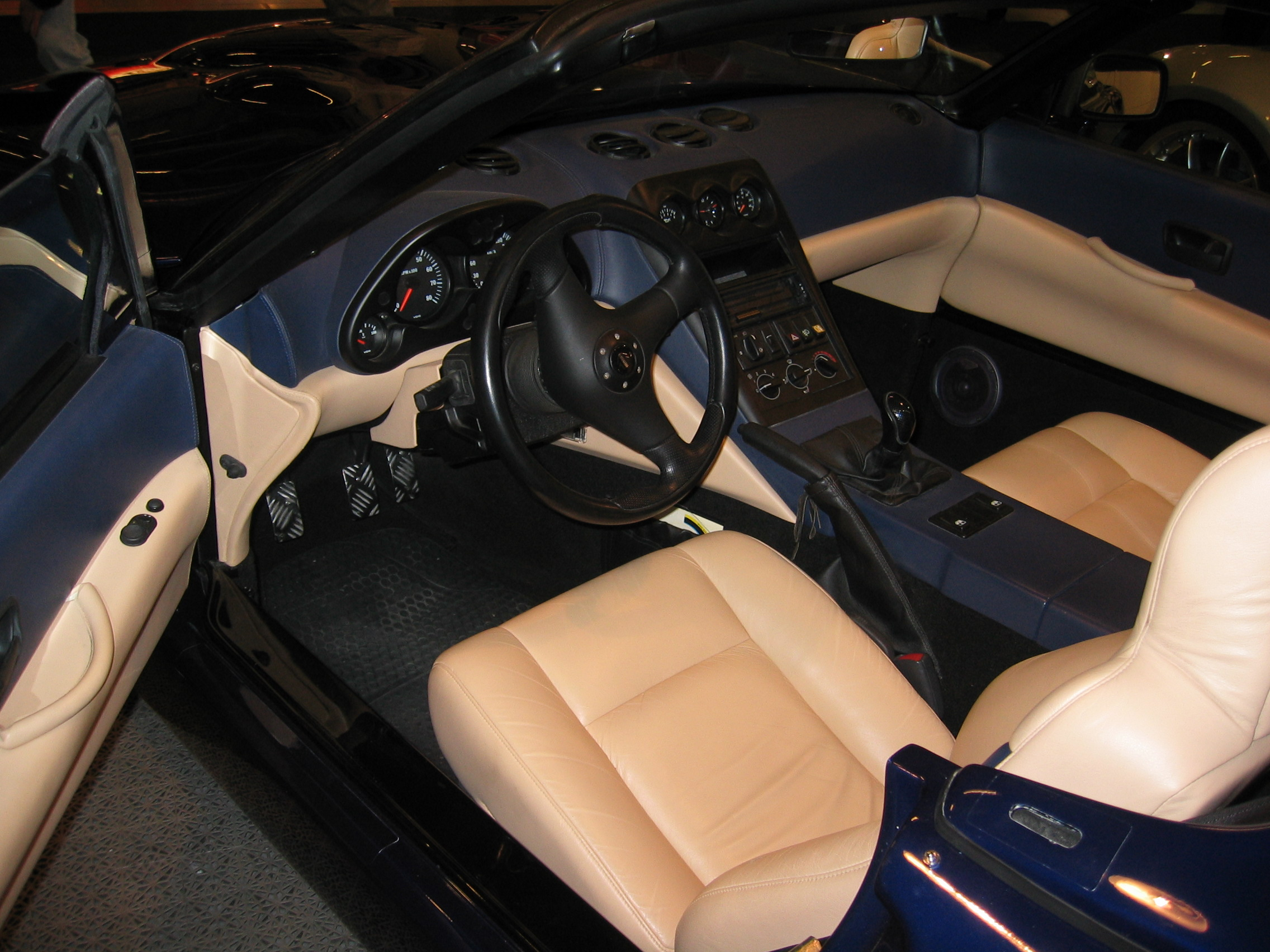 Indigo 3000 interior.